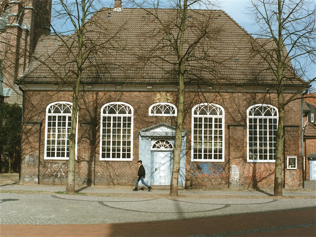 Church St. Nikolai, Southbuilding, Elmshorn, Germany